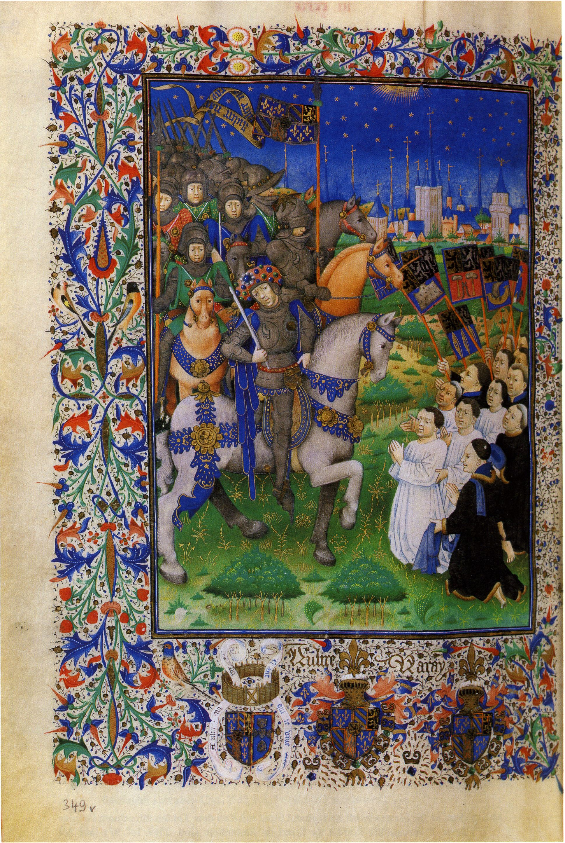 Duke Philip the Good accepts the submission of the citizens of Ghent in 1453. Illumination in a manuscript book produced for the duke. Vienna, Österreichische Nationalbibliothek, Cod. 2583, fol. 349v.